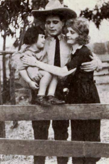 Still with Jack Hoxie and Evelyn Nelson, on page 92 of the February 5, 1921 Exhibitors Herald. The caption identifies the film as The King of Indian Peak", but there is no film listed in the IMDB under that title, nor is mentioned in later issues of the Exhibitors Herald. The caption also identifies it as the second Arrow film of Hoxie, in which case this would be a still from Cyclone Bliss (1921).